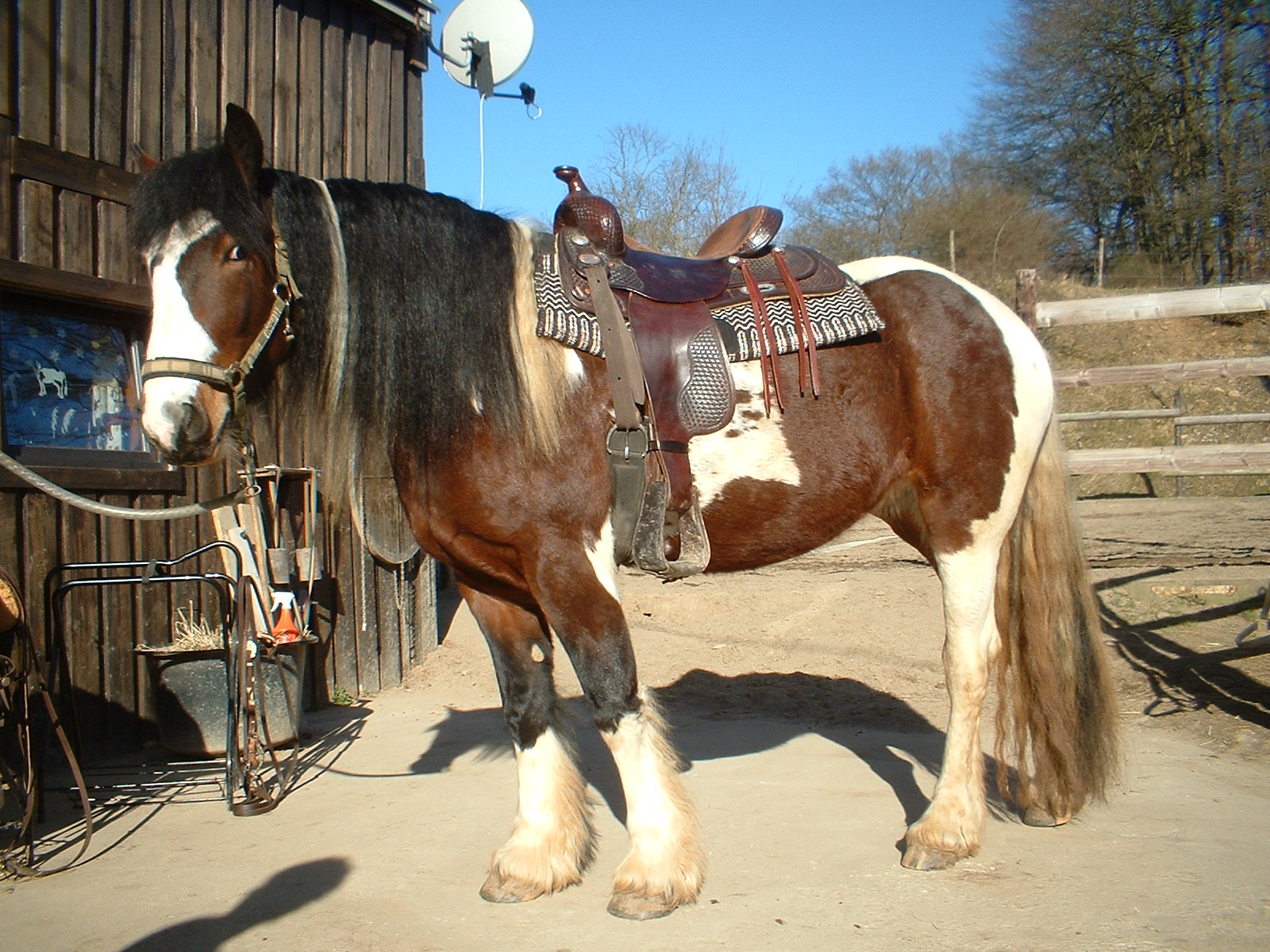 Gypsy Vanner mare